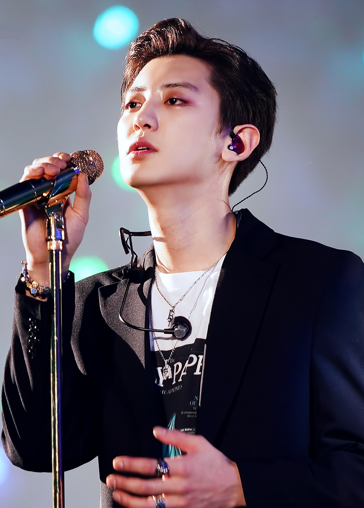 Chanyeol during the Exo Planet 5 – Exploration concert on December 2019.